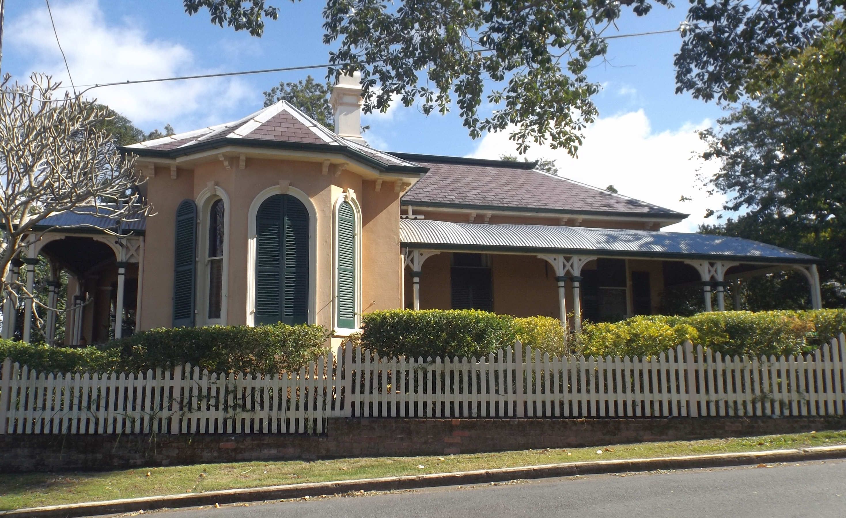 Photo of Wilston House from other side of Watson Street at Wilston, Brisbane, Queensland, Australia.